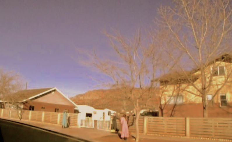 Young FLDS girls in Colorado City, AZ wearing primitive clothing and doing physical labor, 2014.